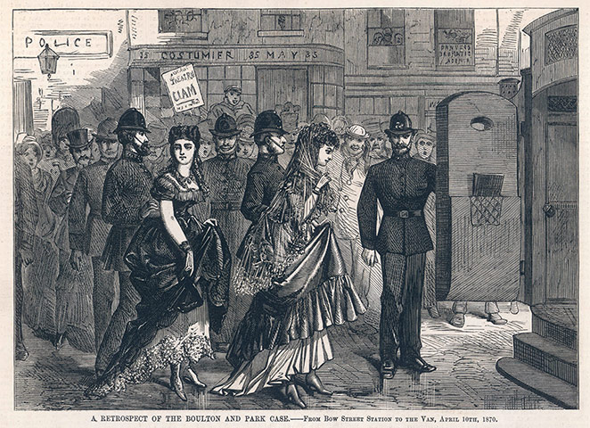 Ernest Boulton and Frederick Park, both in full drag, leave Bow Street Magistrates' Court on 9 April 1870, the morning after their arrest at the Strand Theatre. Photograph: The Illustrated Police News/Mary Evans Picture Library